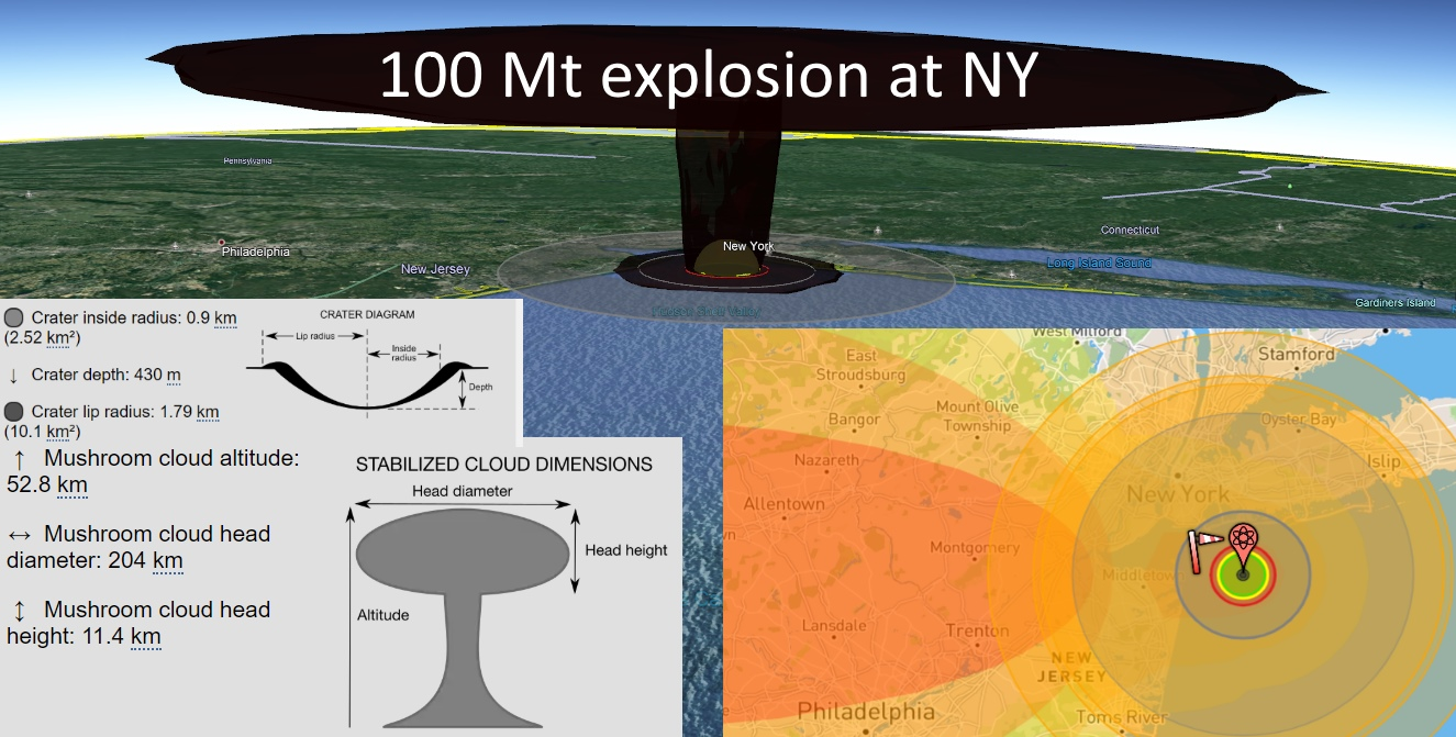 Model of Status-6 explotion. Based on Nuke Map model ( under CC-BY-SA license